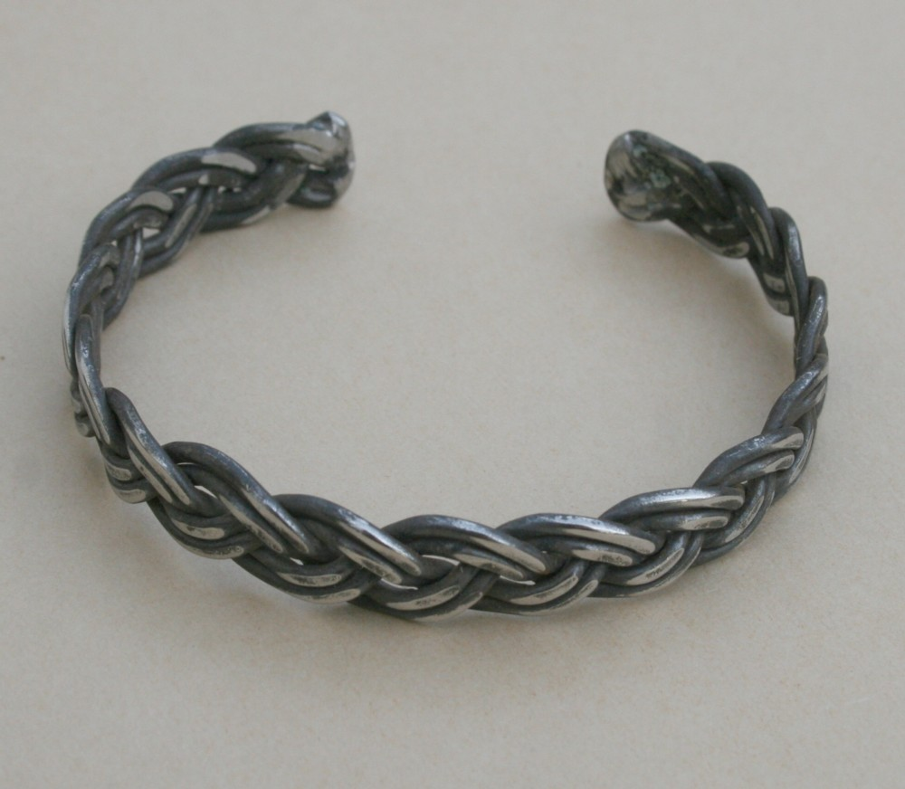 Stainless steel bracelet